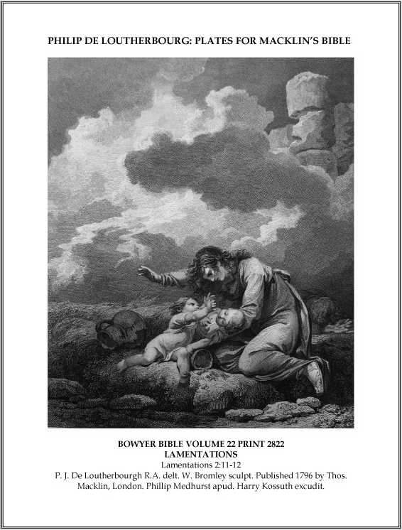 A plate engraved for the Macklin Bible after a specially-commissioned painting by Philippe Jacques De Loutherbourg. Photograph from the Bowyer Bible, Bolton, England. Bowyer Bible 22.2822. Lamentations. Lamentations 2:11-12. A mother grieving over the death of her child in her arms from hunger, as her other sitting beside reaches towards her with desperation, a body lying behind at right. 1796. Inscriptions: Lettered below image with title, bible reference, production detail: "P. J. De Loutherbourgh R.A. delt.", "W. Bromley sculpt." and publication line: "London, Published Sept. 17th. 1796, by Thos. Macklin, Poet's Gallery, Fleet Street". Print made by William Bromley. Dimensions: Height: 478 millimetres; width: 396 millimetres.